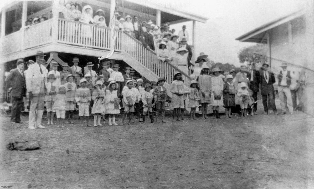 Opening of the new Juandah State School, 1918. Students, staff, and parents at the opening of the new Juandah State School. Those participating in the photograph are standing on the balcony, steps, and in front of the school building. Juandah State School became Wandoan State School in 1926.